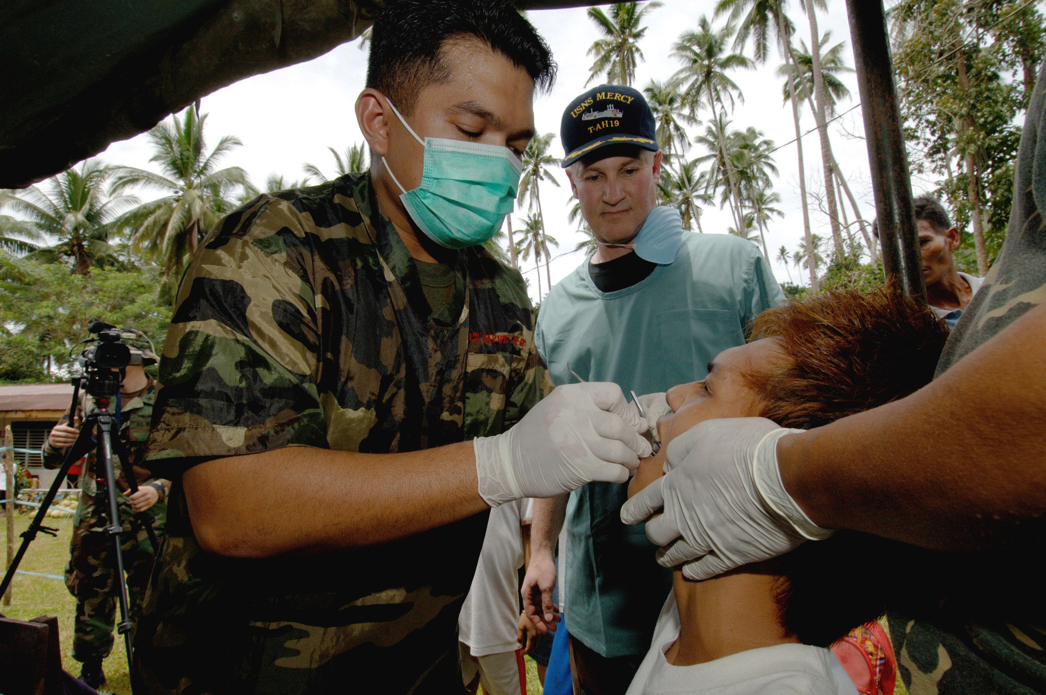 Isabella, Republic of the Philippines (May 29, 2006) - Col. Jeffery Swartz, of Smithtown, New Jersey, observes the technique used by a Filipino dentist to extract a tooth. Col. Swartz is a Dental Officer aboard the U.S. Military Sealift Command (MSC) hospital ship, USNS Mercy (T-AH 19), and was able to participate in a Medical Civil Action Program (MEDCAP) located on Basilon Island, just south of Zamboanga City. Medical and dental services were provided by doctors and staff, together with non-governmental organizations. MEDCAPs are an integral part of Mercy's humanitarian mission and provide a multitude of medical, dental and veterinary care for the people who live in this region. Mercy is embarked on a five-month humanitarian deployment to South and Southeast Asia, and the Pacific Islands. Mercy is able to rapidly respond to a range of situations on short notice and is capable of supporting medical and humanitarian assistance needs with special medical equipment and a multi-specialized medical team, providing a range of services ashore as well as aboard the ship. The medical staff is augmented with an assistance crew, many of whom are part of non-governmental organizations that have significant medical capabilities. U.S. Navy photo by Chief Photographer's Mate Edward G. Martens (RELEASED)